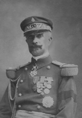 In uniform